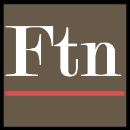 An icon I originally made to be used as part of my CrystalSVG desktop icon set.